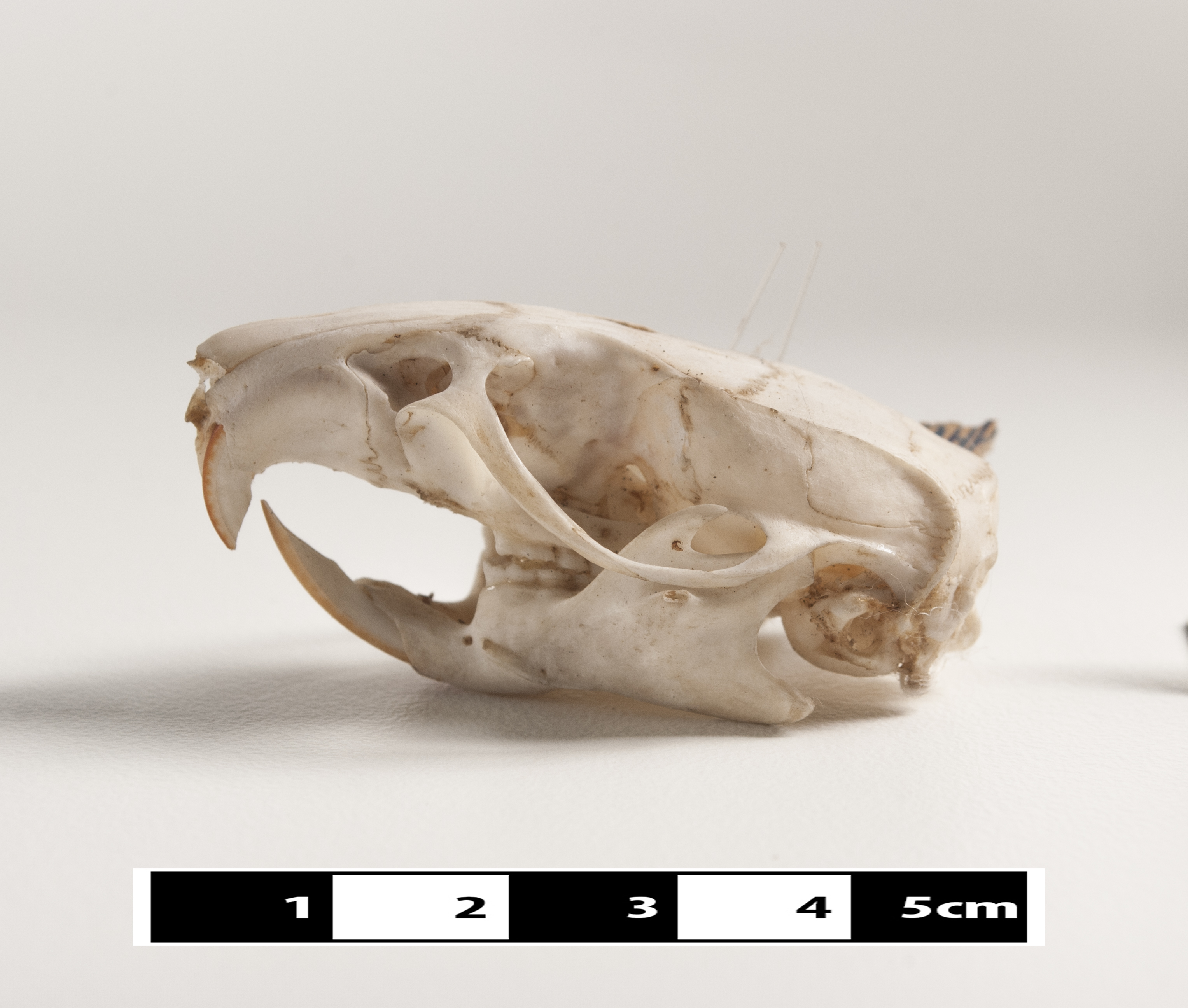 Specimen of white mouse skull prepared by the bone maceration technique and on display at the Museum of Veterinary Anatomy, FMVZ USP.This file was published as the result of a partnership between the Museum of Veterinary Anatomy FMVZ USP, the RIDC NeuroMat and the Wikimedia Community User Group Brasil. This GLAM project is reported.Photography: Museum of Veterinary Anatomy FMVZ USPAuthor: Wagner Souza e Silva